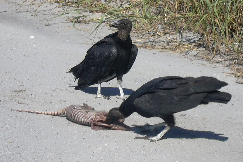 Scaevola taccada (habitat with turkey vultures eating armadillo). Location: Florida, Caspersen Beach